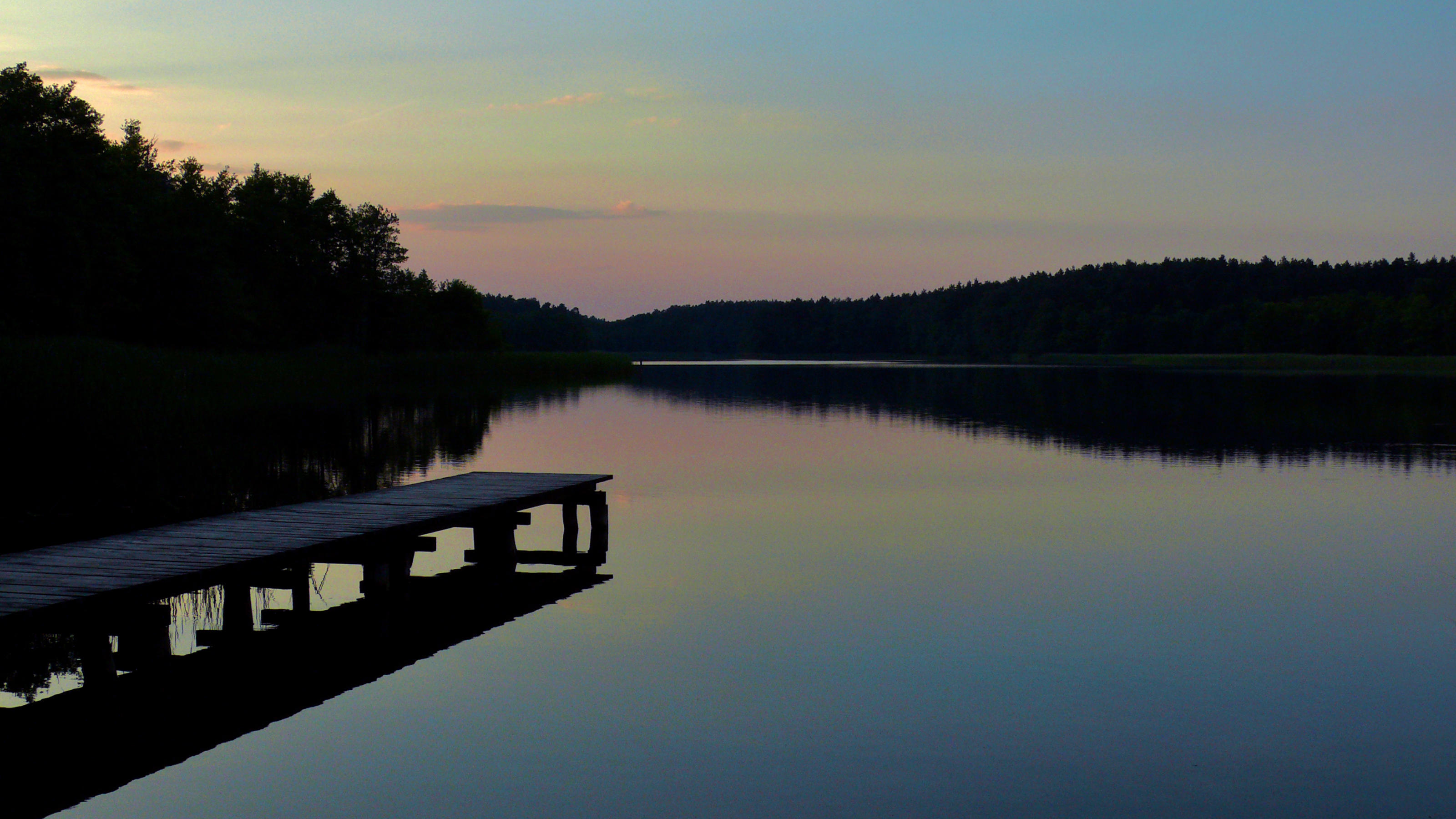 Ostrowiec lake near Głusko